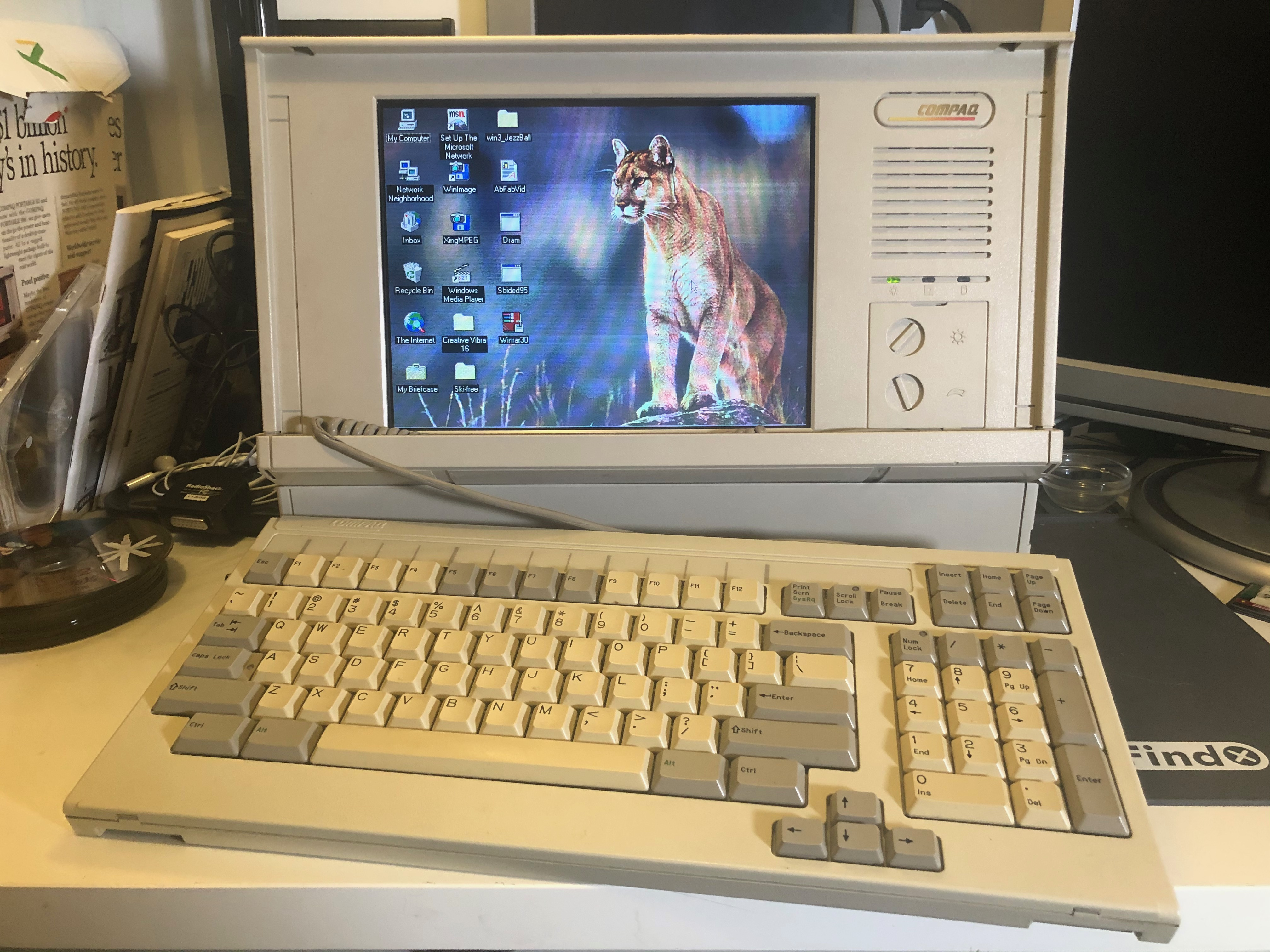 This is an image of a restored 1992 Compaq Portable 486c computer taken in 2019